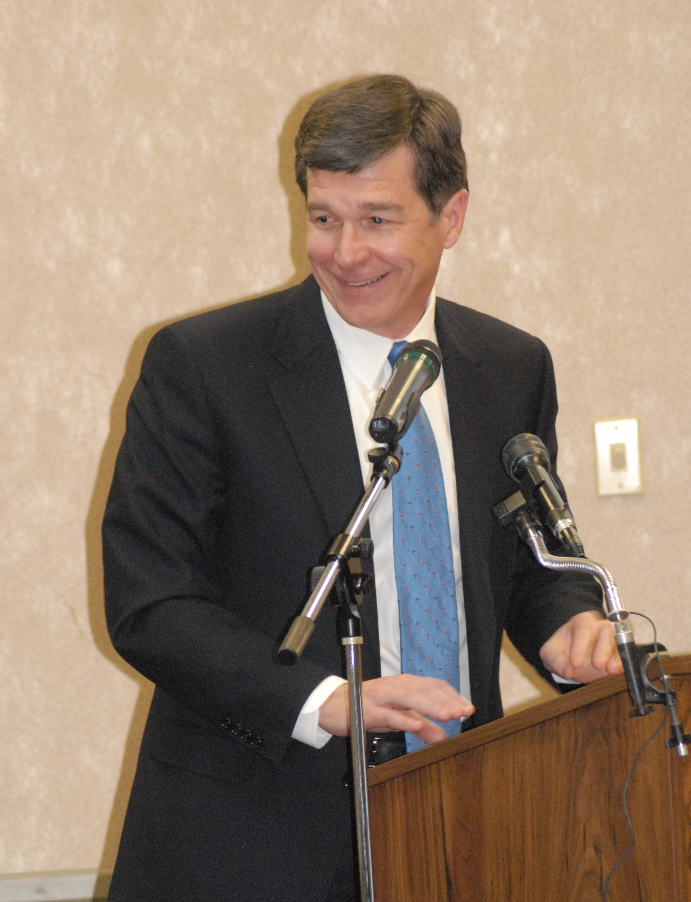 Caption: "North Carolina Attorney General Roy Cooper prepares to speak to Pope Airmen to kickoff Military Saves Week here Feb. 23. (U.S. Air Force Photo by Airman 1st Class Mindy Bloem)"